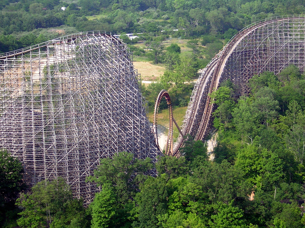 Son of Beast roller coaster at Paramount's Kings Island.